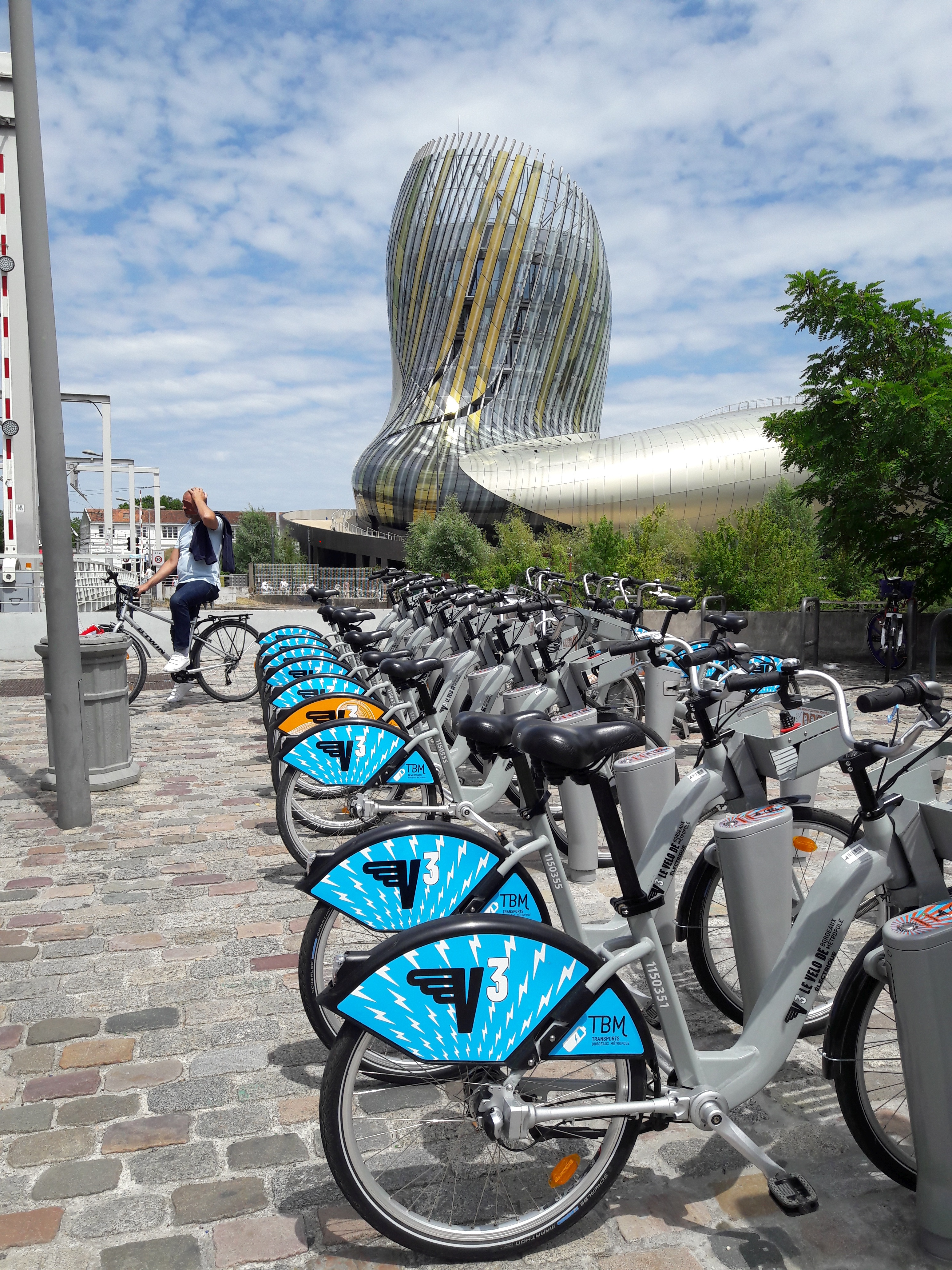 City bikes near Cité du vin